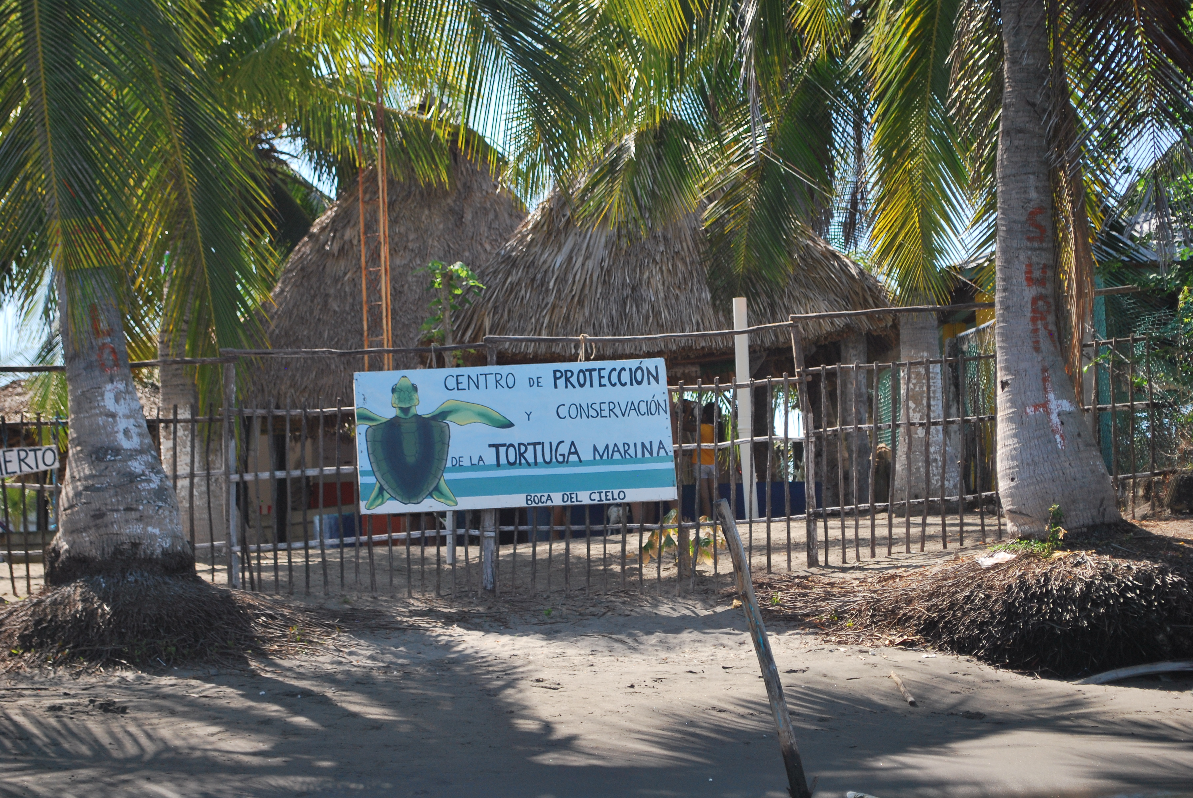 approaching turtle sanctuary in Boca del Cielo, Chiapas